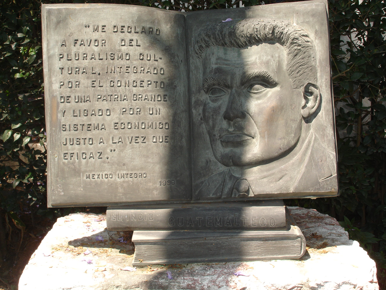 Grave of Dr. Moisés Sáenz Garza in the Rotunda of Illustrious Men in Mexico City. Sculpture by Naomi Sigman